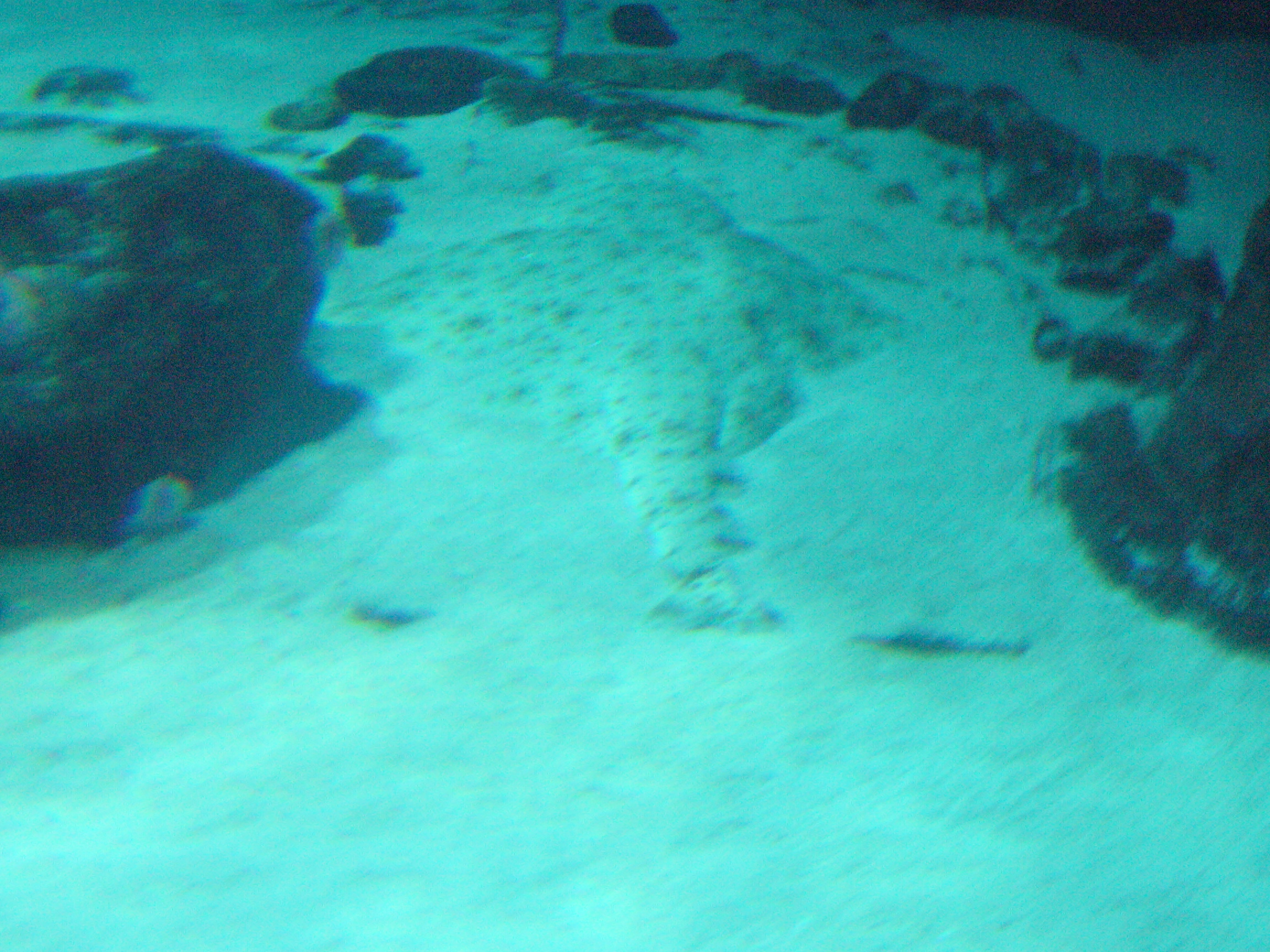 Squatina aquatina (shark angel) in Sala Nautilus of Aquarium Finisterrae (House of the Fishes), in Corunna, Galicia, Spain.